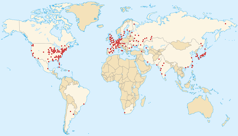 atomic power plants worldwide